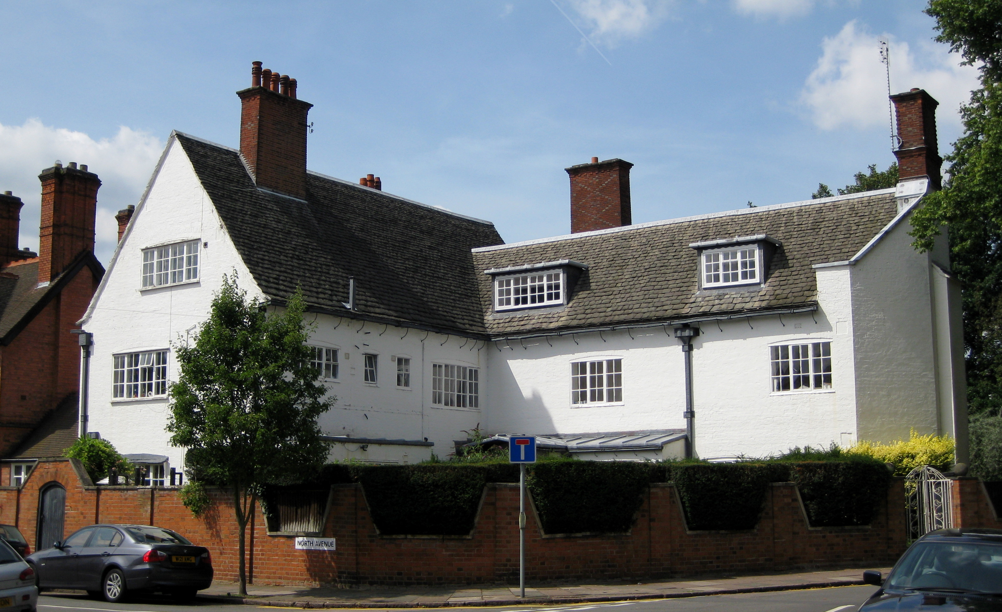 Ernest Gimson's White House, North Avenue, Leicester